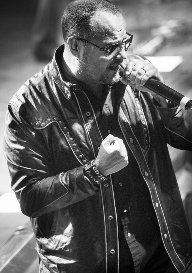 500px provided description: Dio Disciples - Ripper Owens [#concert ,#heavy metal ,#live concert ,#dio disciples ,#ripper owens]